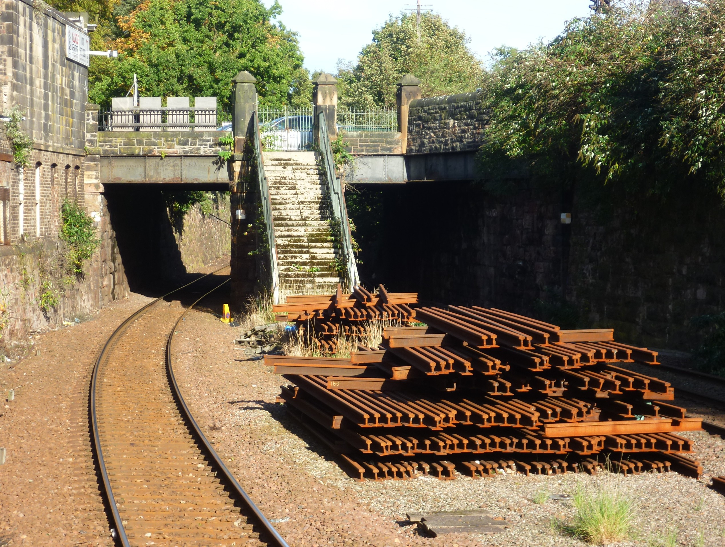 The site of Newington Station on the Edinburgh South Suburban Railway. The steps led down to an island platform.